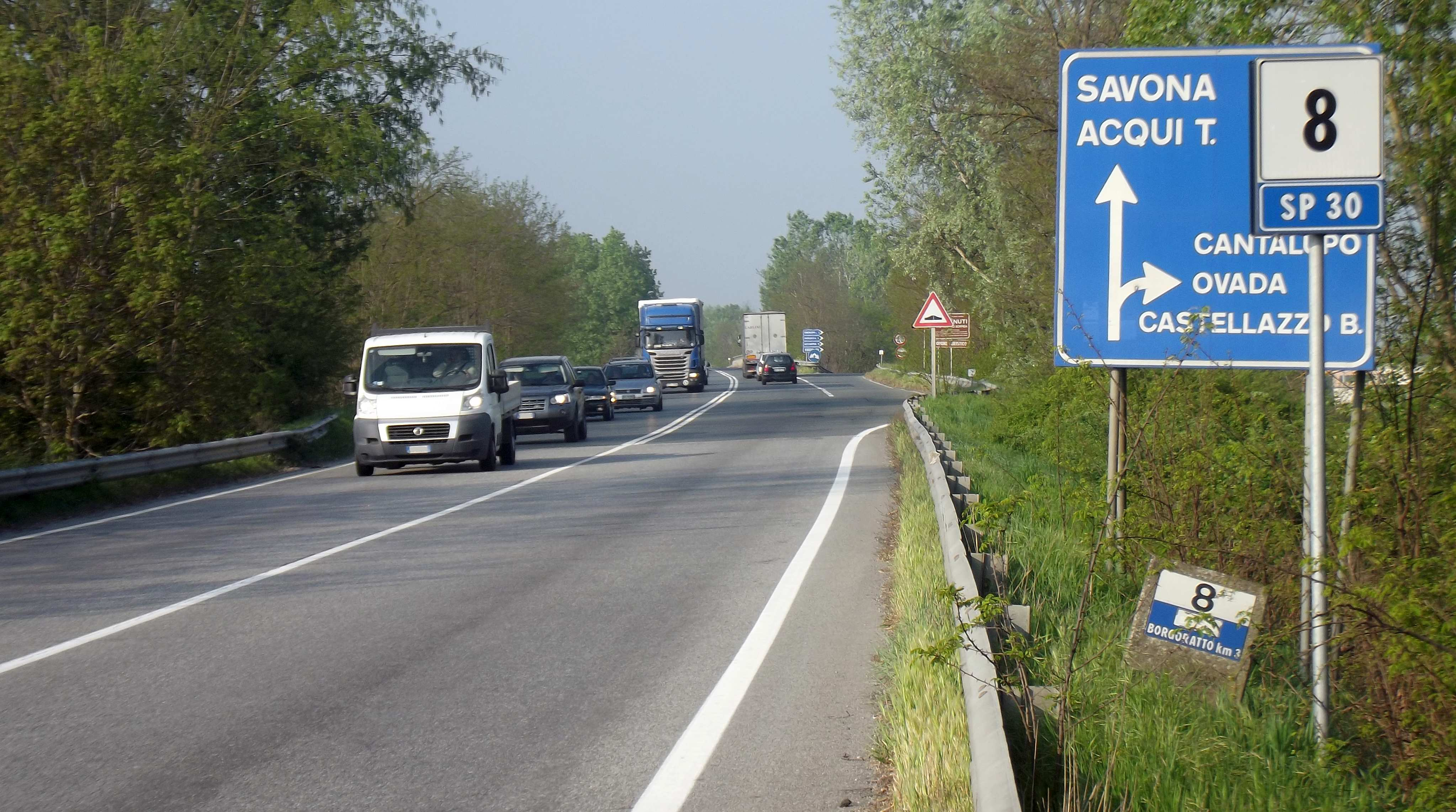 Former Italian national road n.30 di Val Bormida": Castelspina and Castellazzo jonction